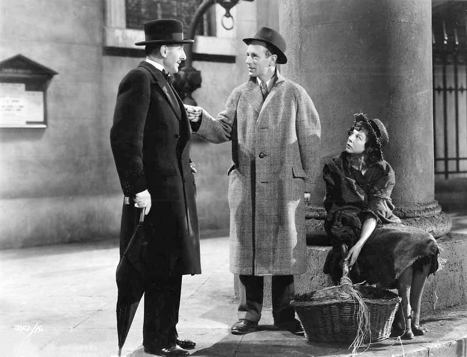 Promotional still from the 1938 film Pygmalion, published in National Board of Review Magazine. L-R: Scott Sunderland, Leslie Howard, Wendy Hiller.